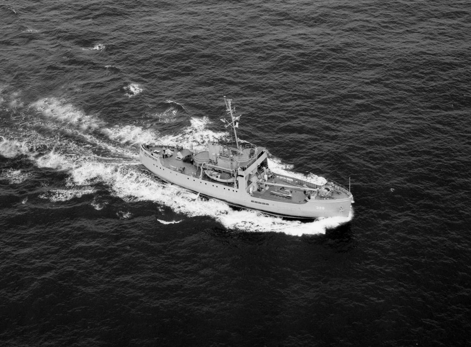 The U.S. Navy buoy tender USS Redbud (AKL-398) underway off Point Loma, California (USA), in 1949.